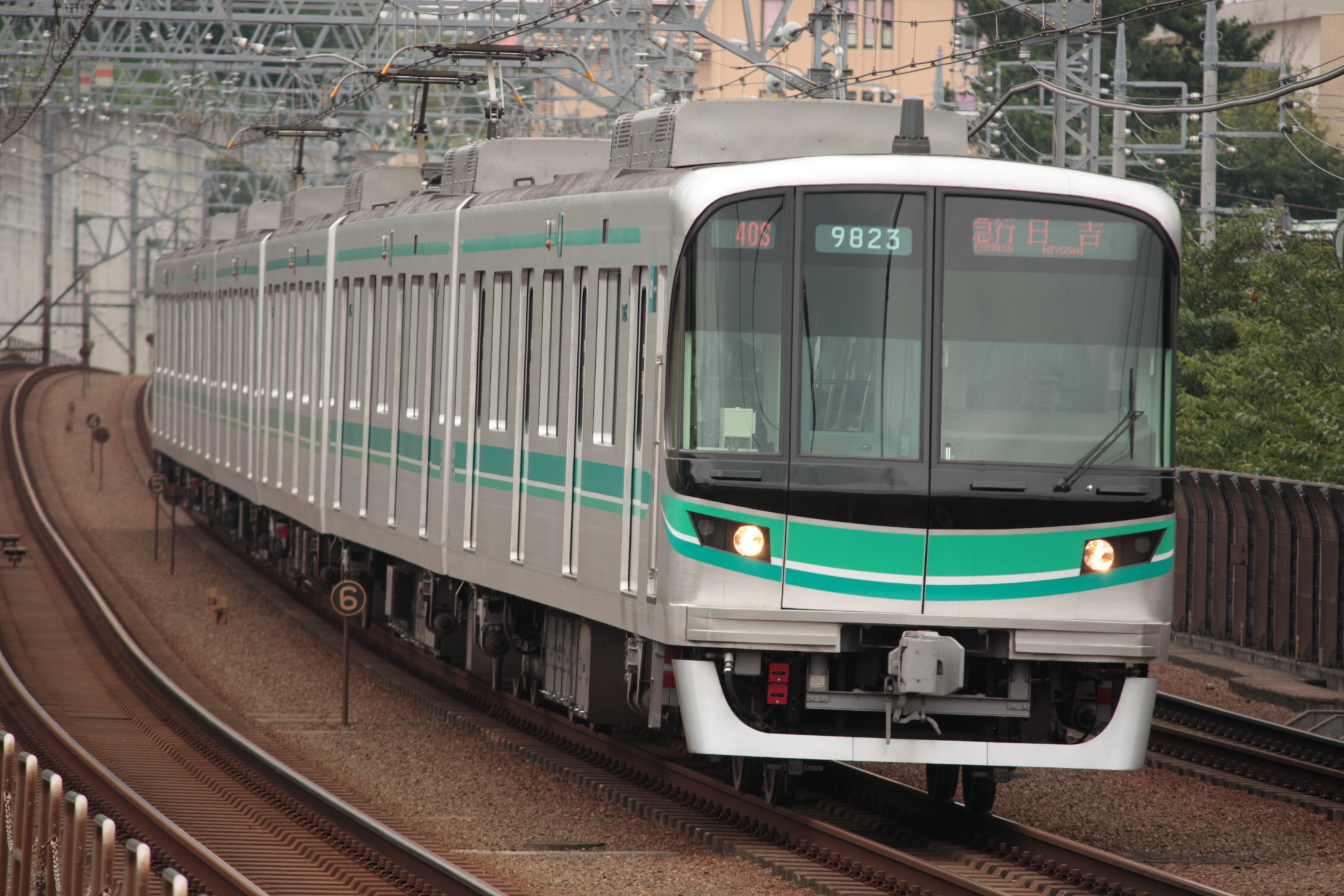 Tokyo Metro 9000 series EMU set 23 (5th batch type) approaching Tamagawa Station on the Tokyu Meguro Line